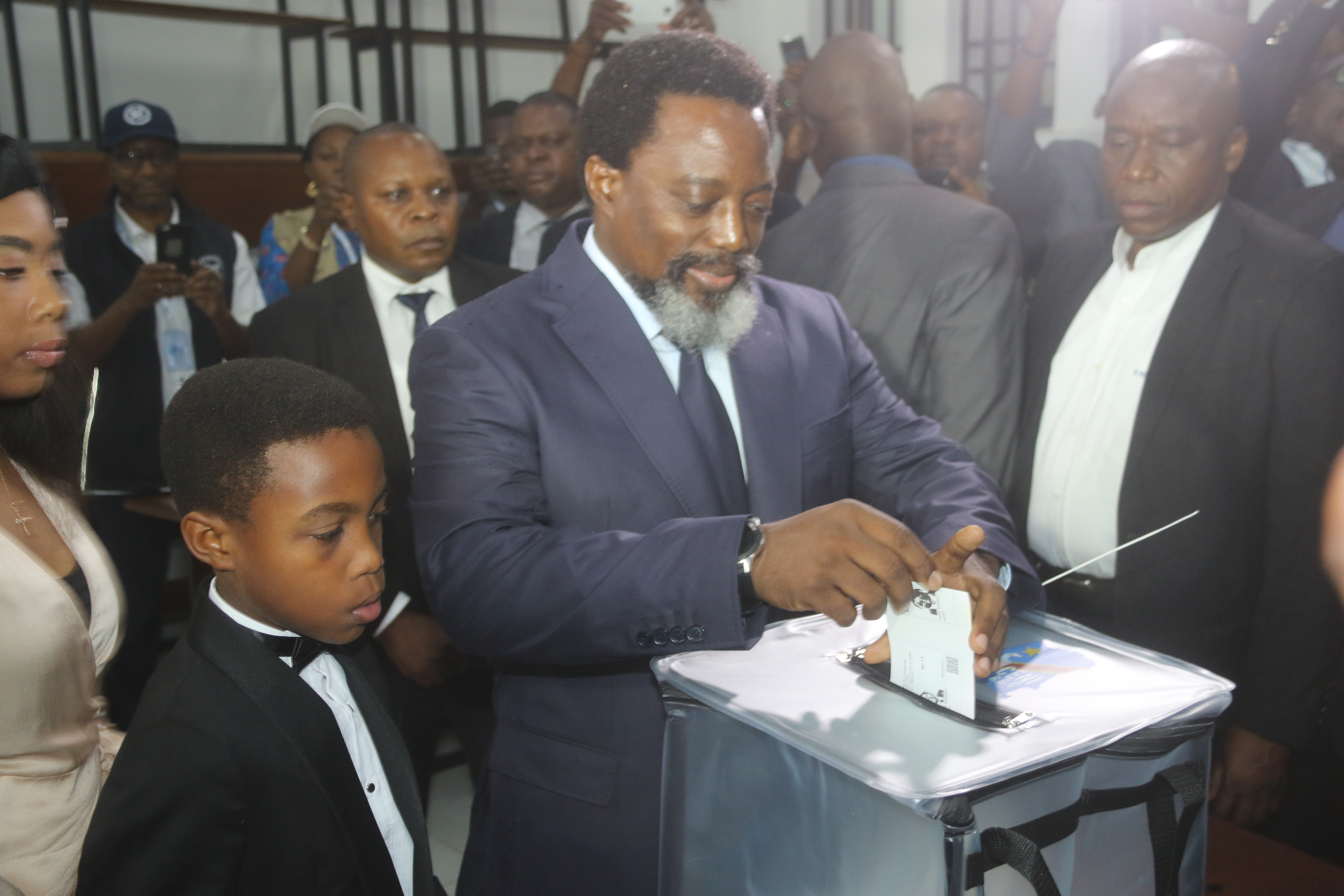 President Joseph Kabila casting his ballot in the Democratic Republic of the Congo's 2018 general elections